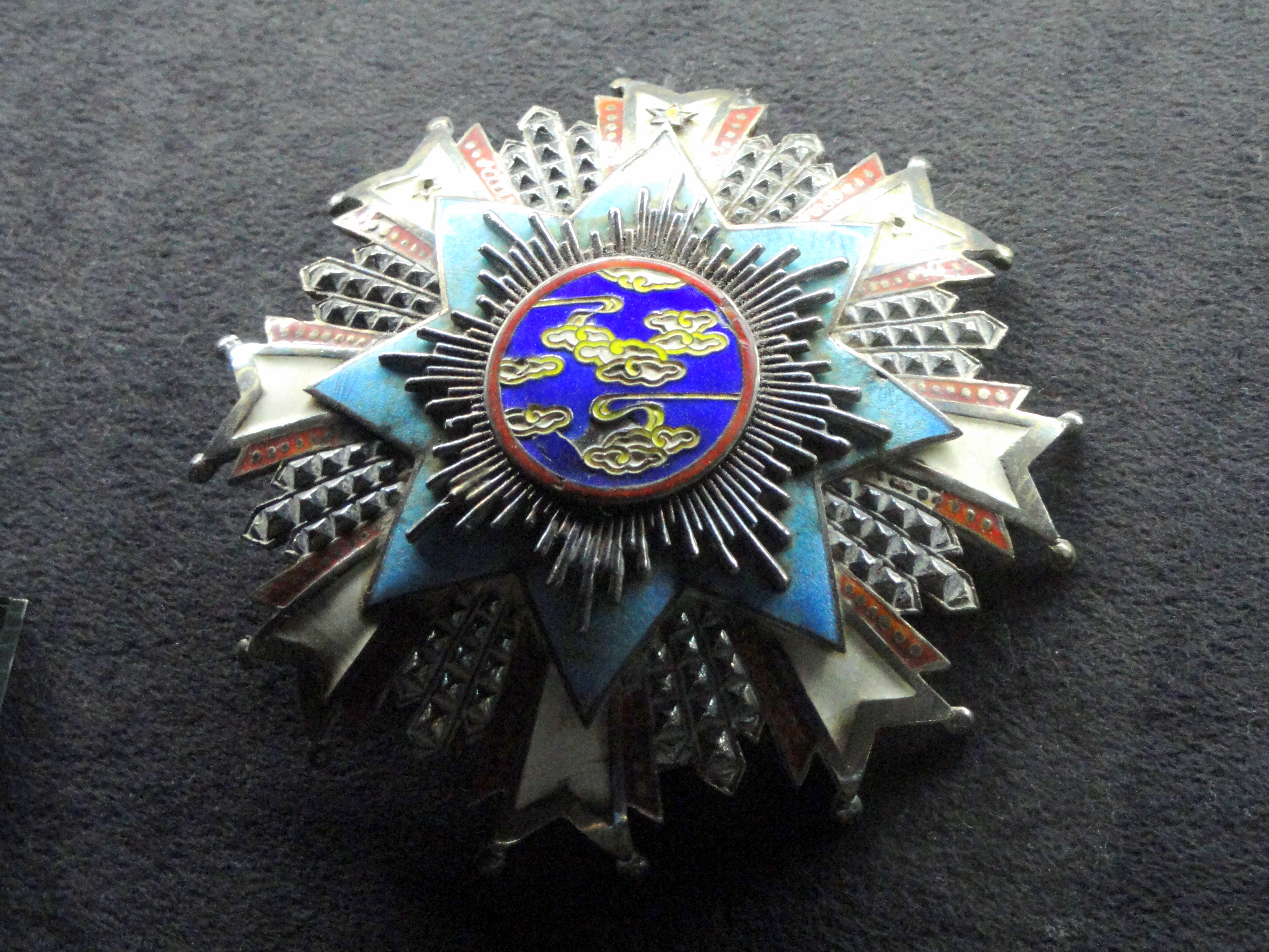 IExhibit in the Memorial JK, Brasília, Brazil.